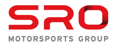 Logo for SRO Motorsports Group